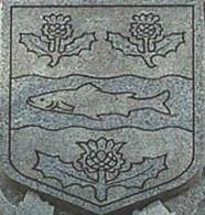 Former Coat of Arms of Nova Scotia (from a monument to Wilfrid Laurier in Montreal). Photo by Montrealais.